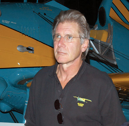 DAYTON, Ohio. Actor Harrison Ford toured the Air Force Museum while he was in town for the National Aviation Hall of Fame Enshrinement events in 2003; A Boeing P-26A Peashooter is visible in the background (U.S.A. Air Force photo).